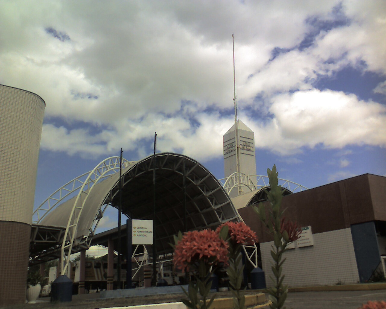 School SENAI CETAFR Maracanau Ceará